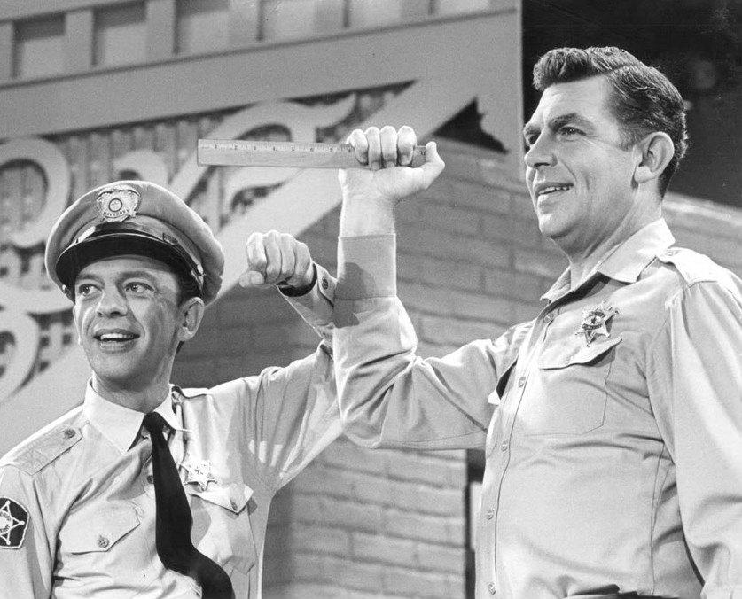 Publicity photo of Andy Griffith and Don Knotts from a Jim Nabors television special. Griffith and Knotts revive their Andy and Barney roles for a skit on the show.